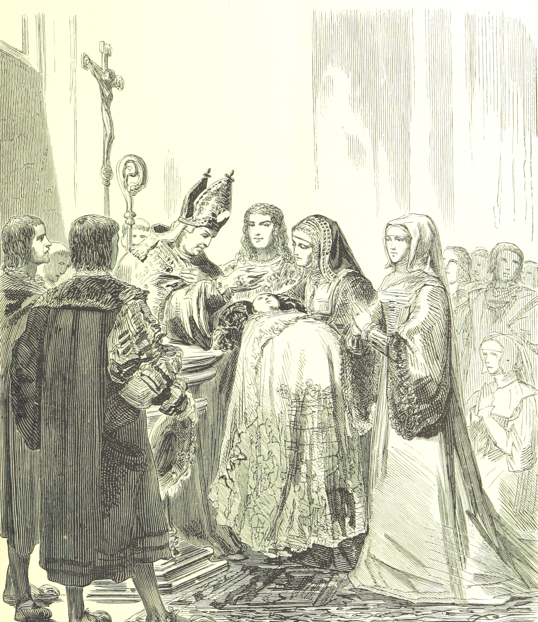 Baptism in Ghent on 7 March 1500 of Charles, archduke of Austria and duke of Luxembourg, the later Charles V, Holy Roman Emperor